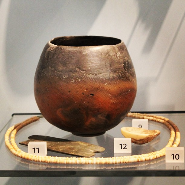 A Badarian Burial From about 4500 - 3850 BC, Stone Age (Neolithic) communities in the Badari region buried their dead in graves lined with reed mats on which bodies were placed in a crouched position and surrounded by pottery vessels, siltstone palettes and bone tools. These are objects from grave 5710 at Badaria, an undisturbed burial of a child about 10 years of age, including; A black-topped brown ware pot with diagonal rippling and burnishing was found at the southern end of the grave (AN1925.314) A bead necklace with carnelian, 29 steatite, and shell beads. The string ran from the child's neck to the wrists. (AN1925.522) A rectangular siltstone palette (AN1925.520) A spoon of hippopotamus ivory (AN1925.521)